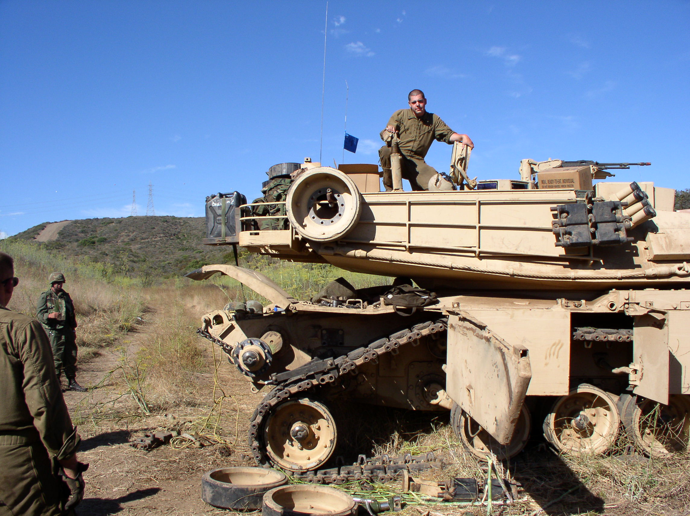 M1 road wheel replacement. Note: This tank is being "short tracked". This is usually only done when the tracks and/or wheels have been damaged (for instance by an anti tank mine) and no recovery vehicle is nearby. This allows a vehicle with partial running gear to move under its own power. The side skirt armour has been swung aside in order to do so. This armour mostly protects the tracks and wheels (running gear) when it is in place, to prevent smaller anti-tank weapons from disabling the tank. It also decreases the chance of RPGs which hit the tank low on the side from penetrating the interior, as they explode well away from the main side armour creating a spaced armor. You can see a smoke grenade launcher at the top-right of the picture, and also the turret bustle at the top-left which carries small arms ammunition, food, water, bedding, etc. The loader's .30 caliber M-240 machine-gun for anti-personnel fire can be seen mounted on the commander's weapon station in place of the normal M-2 .50 cal machine gun.